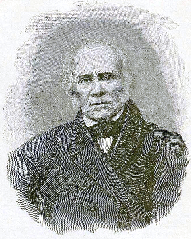 Vasiliy Nazarovich Karazin